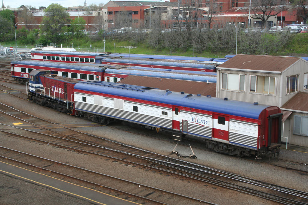 V/Line power van PCO 2 being shunted at Dudley Street carriage yards, Melbourne, Victoria, Australia